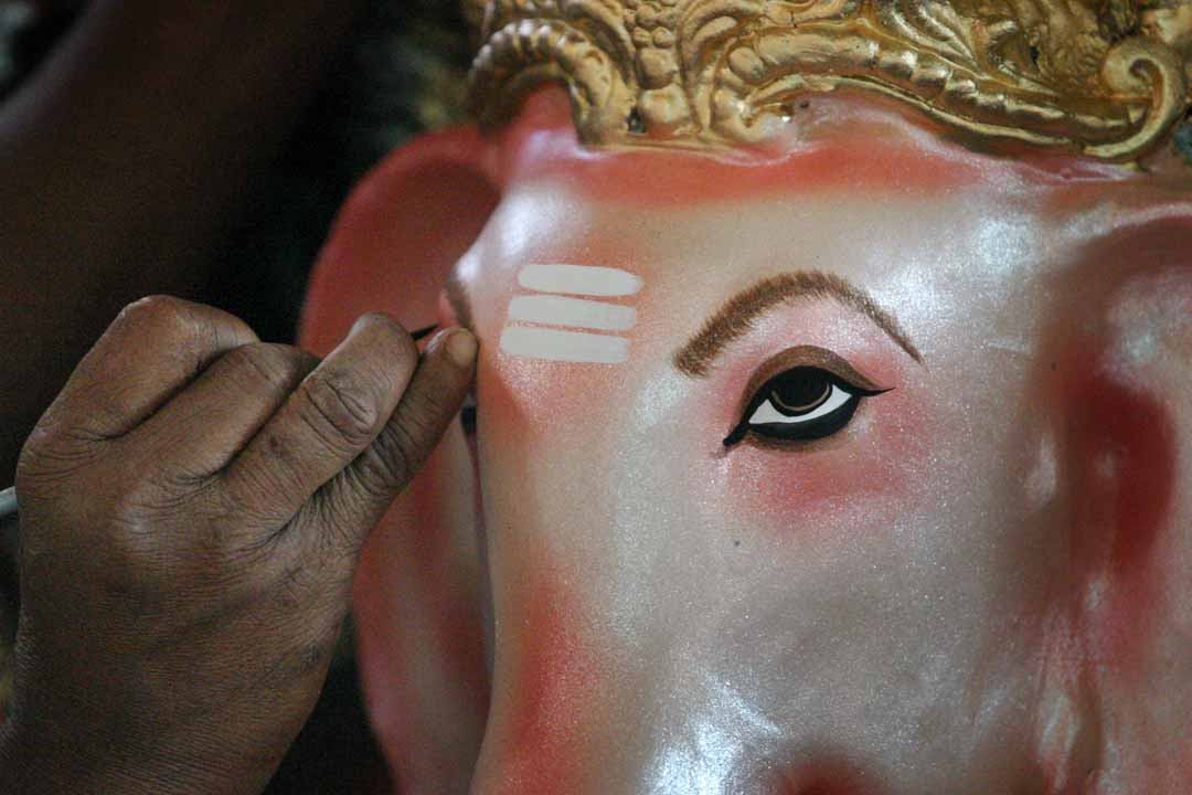 This weekend is a special festival in India dedicated to the deity Ganesh. After worship, the idols, which are made of mud, are immersed in water (nearby lakes, etc.), where they dissolve. Here an "idol maker" puts finishing touches on Ganesh before it is sold to a Hindu adherent.